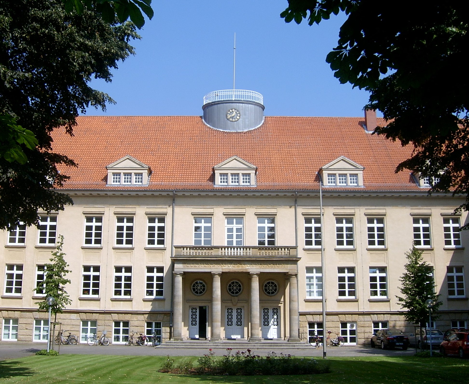 The Clemens-August-Gymnasium in Cloppenburg, Germany. A very old school.